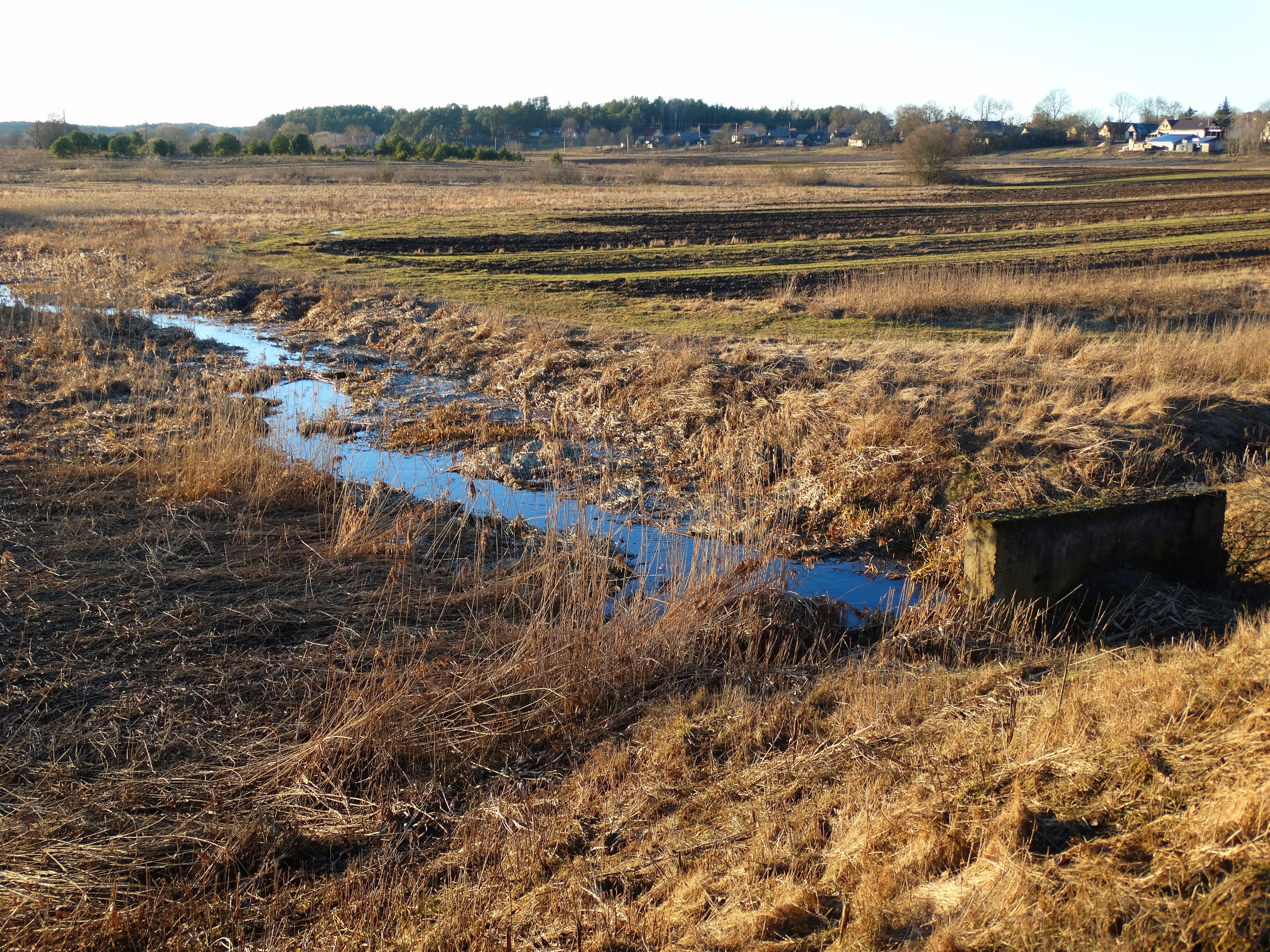 Kubilnyčia stream, by Švendubrė, Druskininkai Municipality, Lithuania